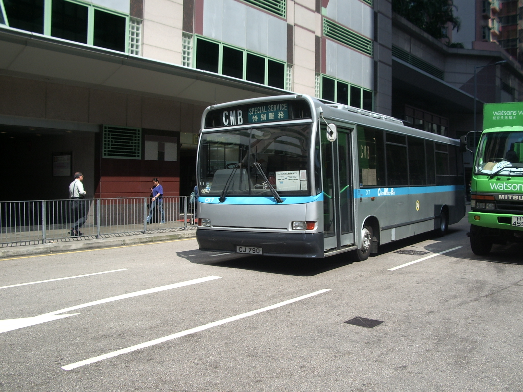 Front view of China Motor Bus CX7, operating as a shuttle between Island Place and North Point Government Offices. Travelling on Tanner Road (opposite Island Place), North Point, Hong Kong. Taken on 22 October 2005 by Carlsmith.